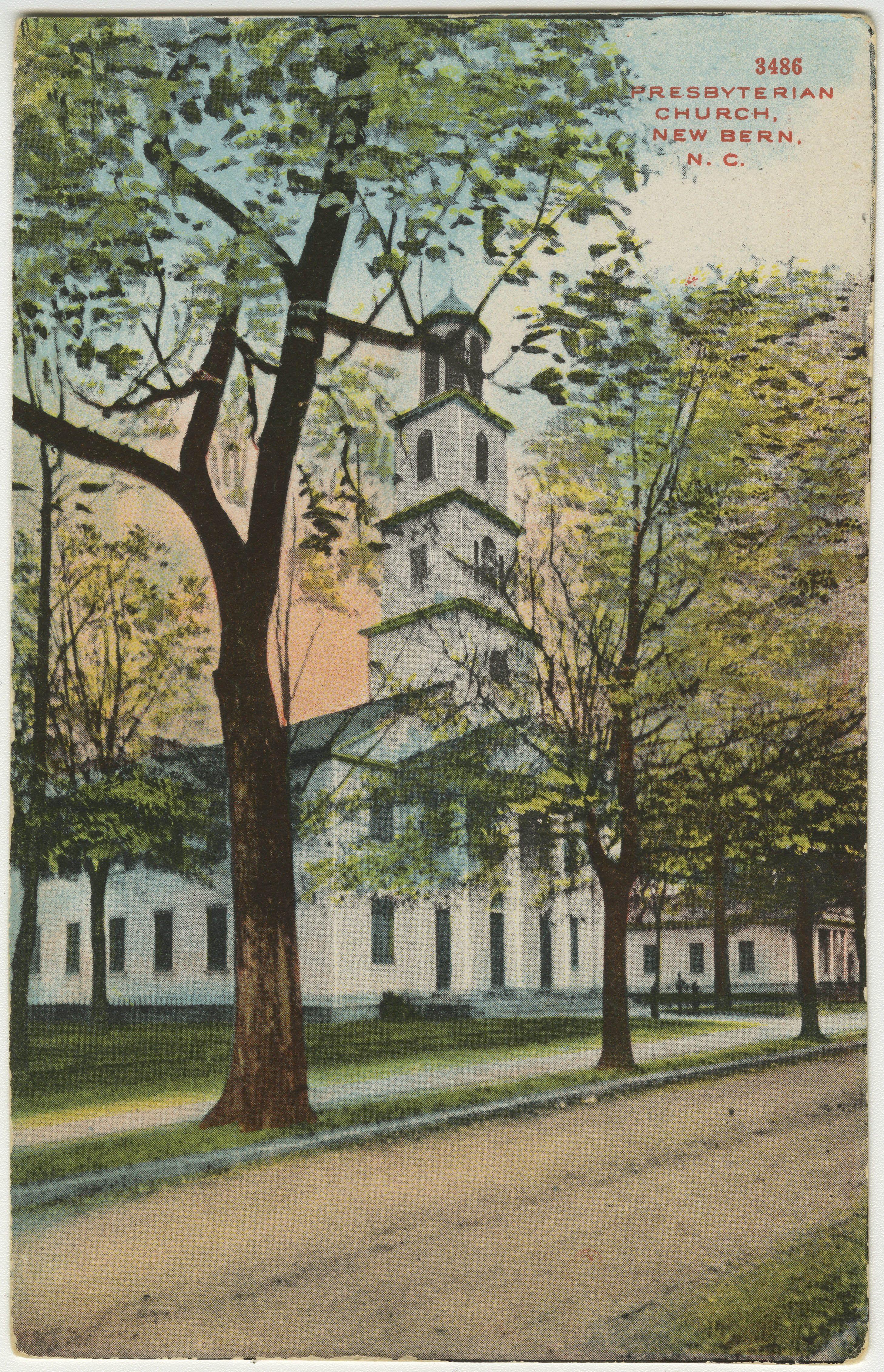 Presbyterian Church in New Bern, North Carolina from a pre-1923 postcard From RG 428, Postcard Collection, Presbyterian Historical Society, Philadelphia, Pennsylvania.